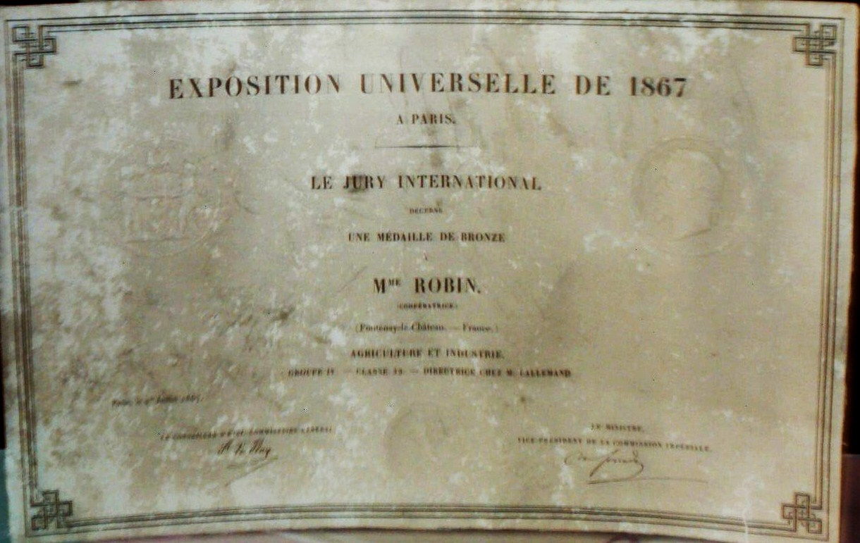 Diploma that was given to a worker of Fontenoy-le-Château during the Universal Exposure of 1867; museum of embroidery.